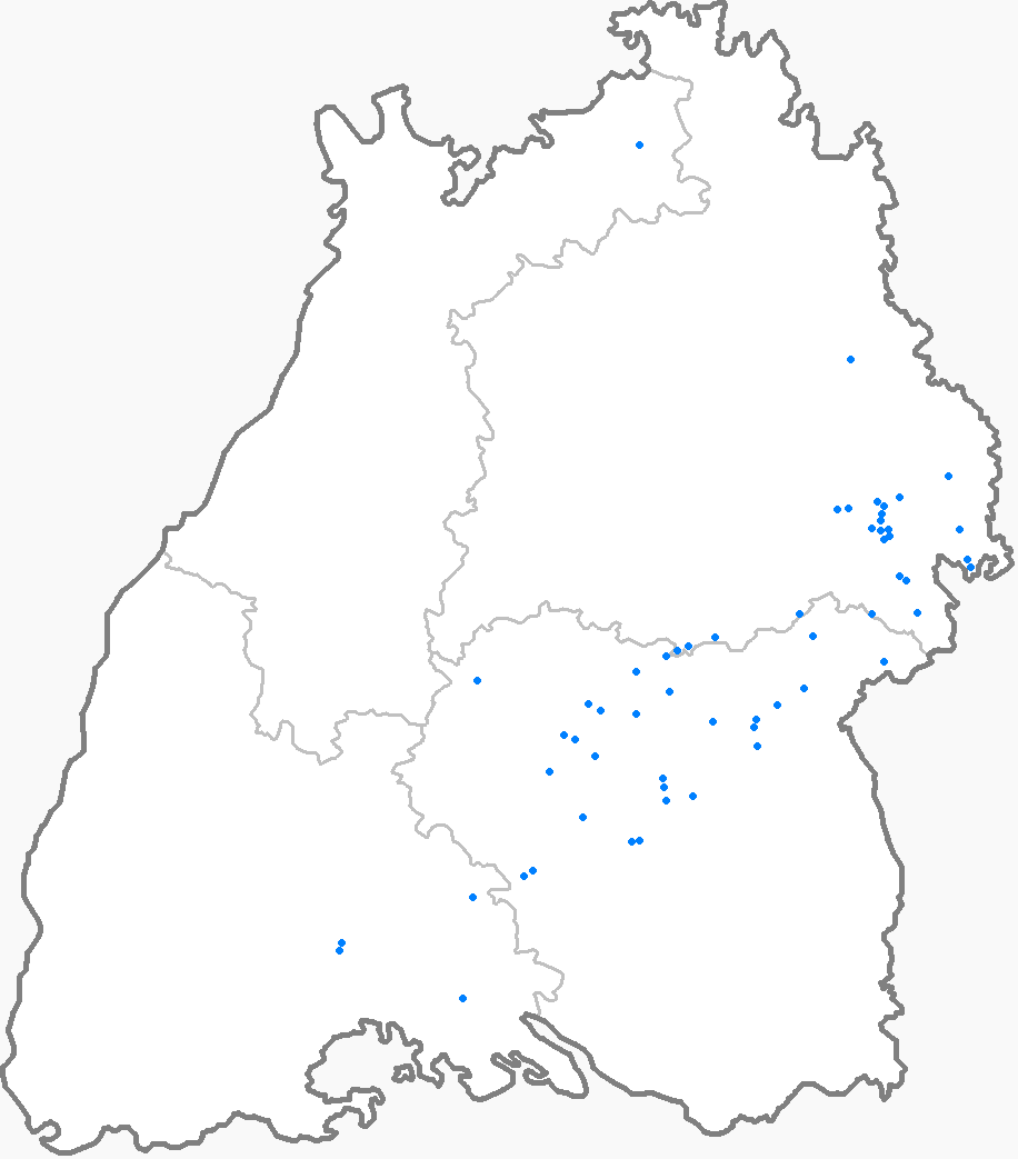 Approximate location of karst springs in Baden-Württemberg (Germany). The file shows karst springs are listed in the "List of karst springs in Germany" in the german Wikipedia. For questions and suggestions contact the author. Country border District border Karst spring